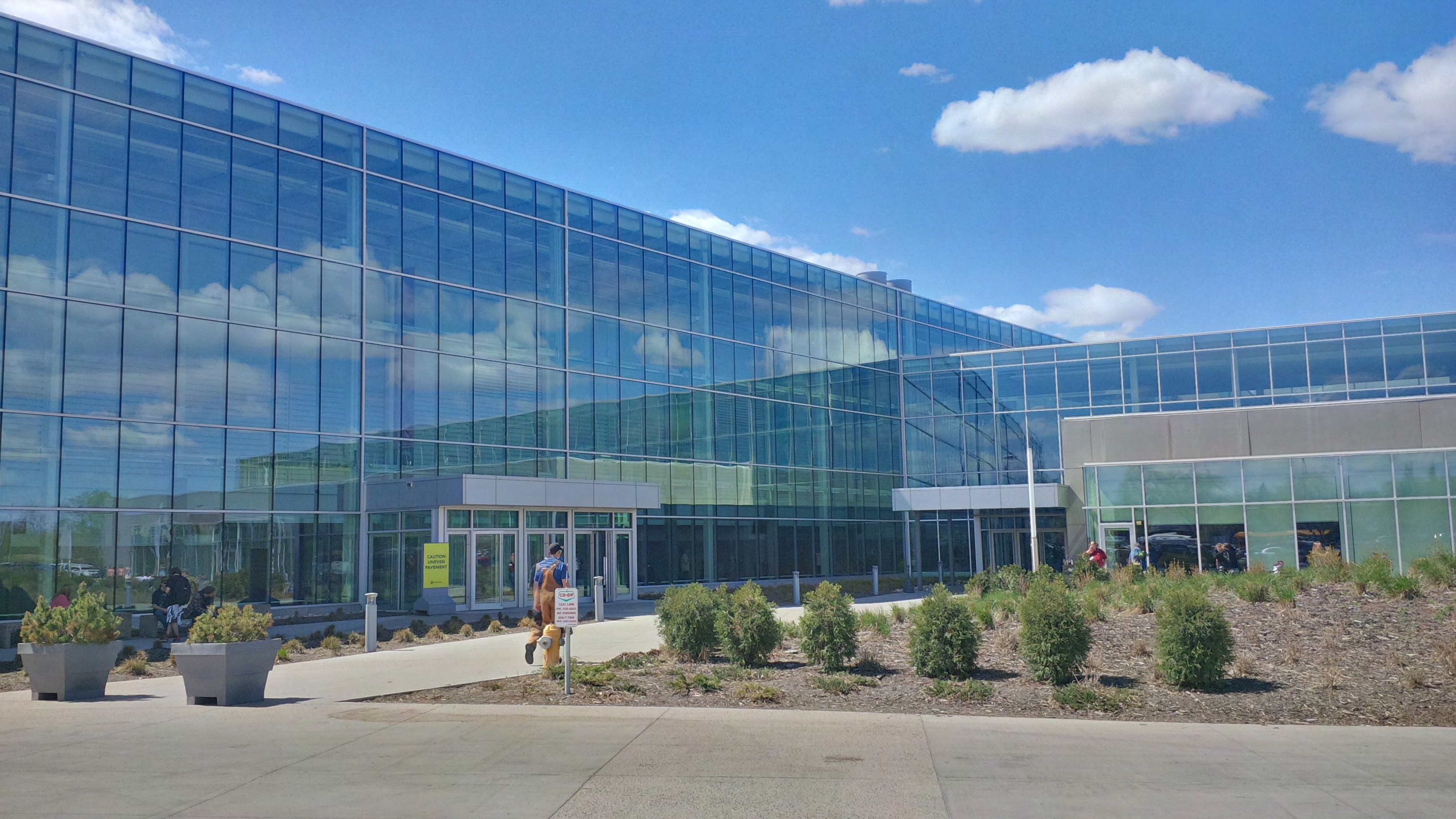 Edmonton Expo Center in May 2013